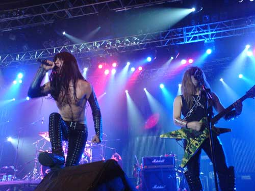 massacration se apresentando